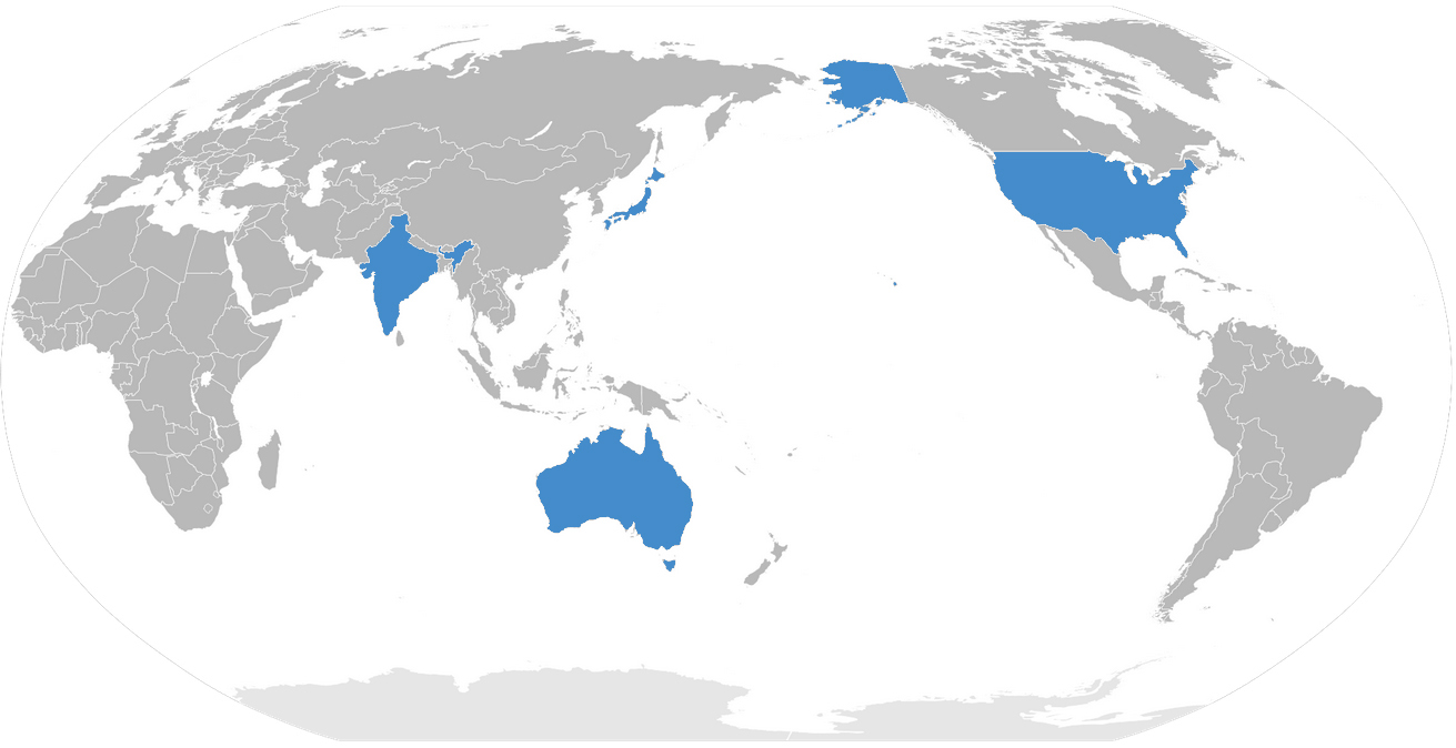 Members of the Quadrilateral Security Dialogue include the United States, Japan, Australia and India.